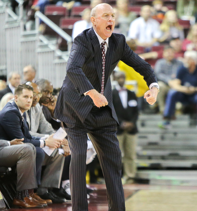 Photo by Chris Gillespie